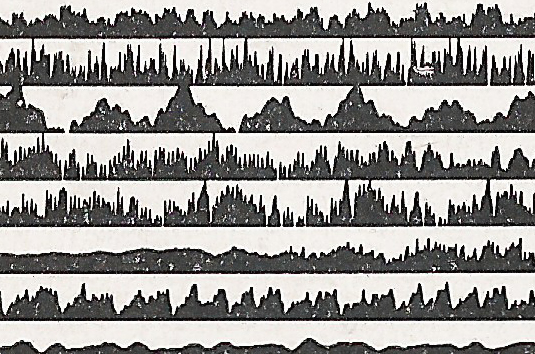 Graphical sound